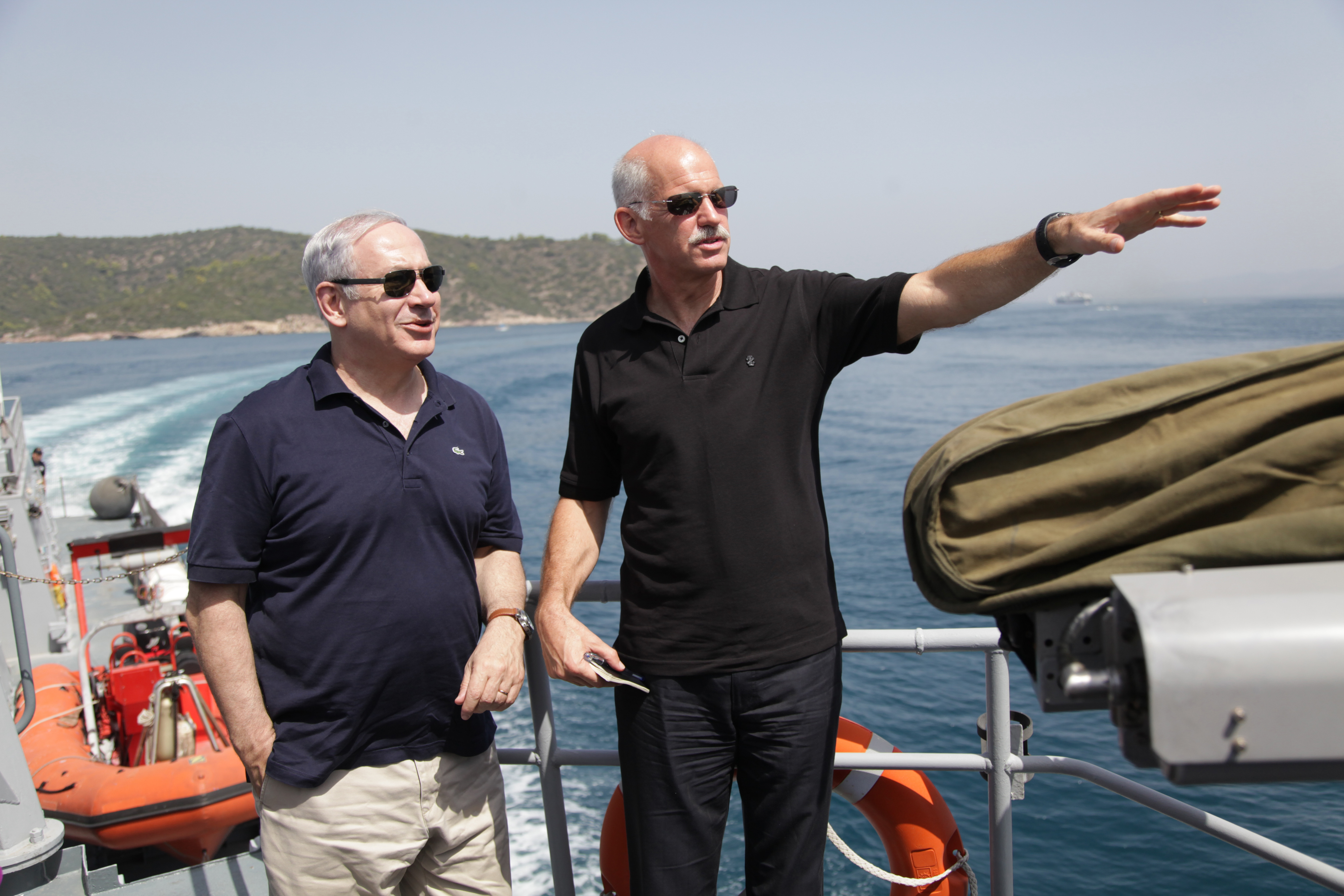 Benjamin Netanyahu and George Papandreou at cruise near the isle Poros, 17 august 2010Hrvatski: Benjamin Netanjahu i Georgios Papandreu na krstarenju kod otoka Porosa, 17. kolovoza 2010.